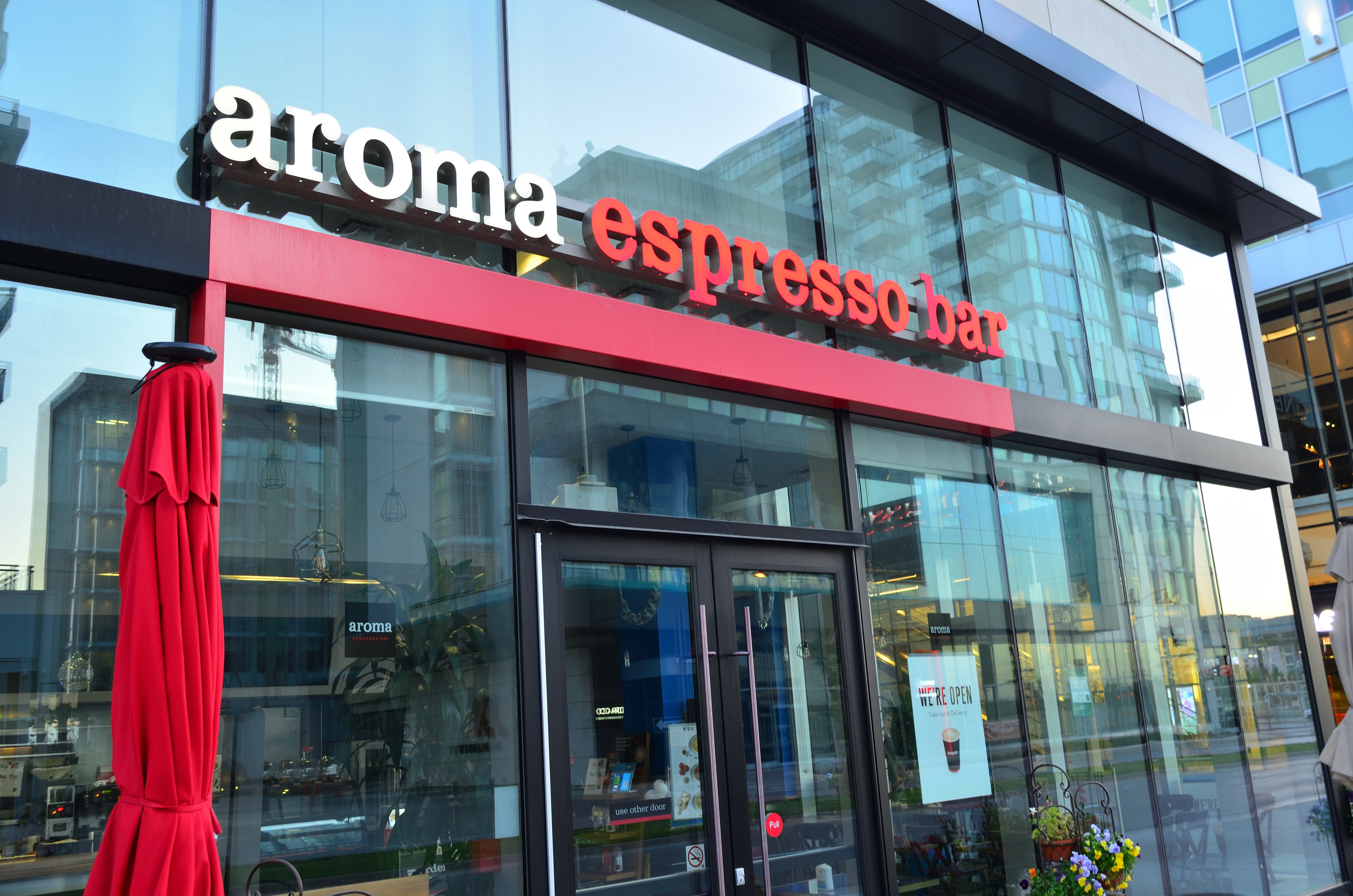 Aroma Espresso Bar - Address: 179 Enterprise Blvd, Unionville, ON L6G 0E7